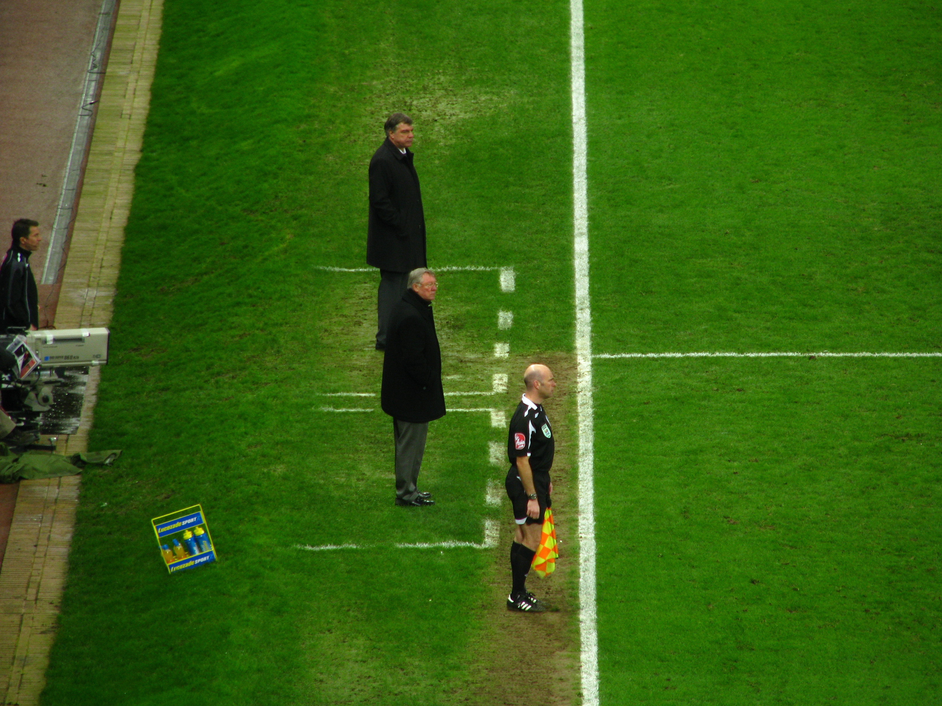 Top - Sam Allardyce (Blackburn) Middle - Sir Alex Ferguson (Manchester United)